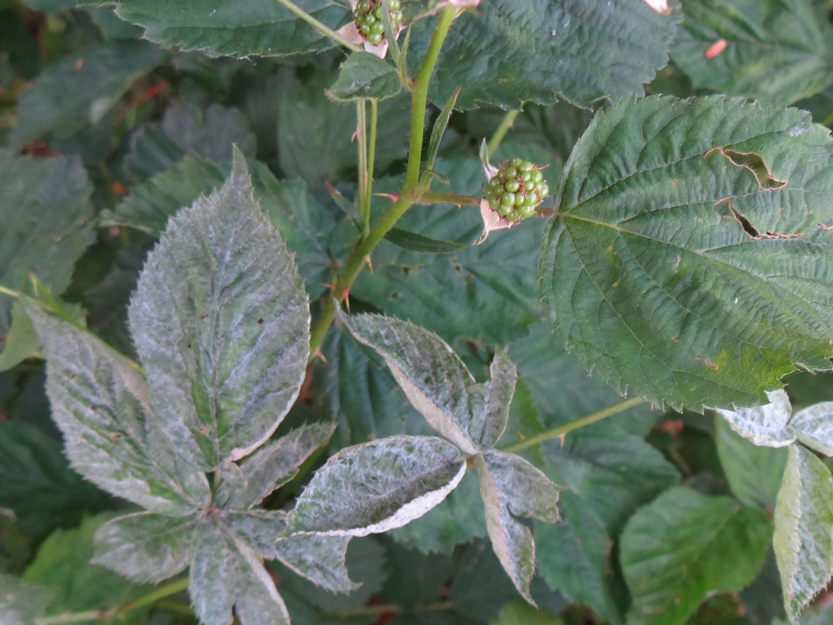 Podosphaera macularis on Rubus idaeus (location: Poland, Beskid Wyspowy, Cwilin)